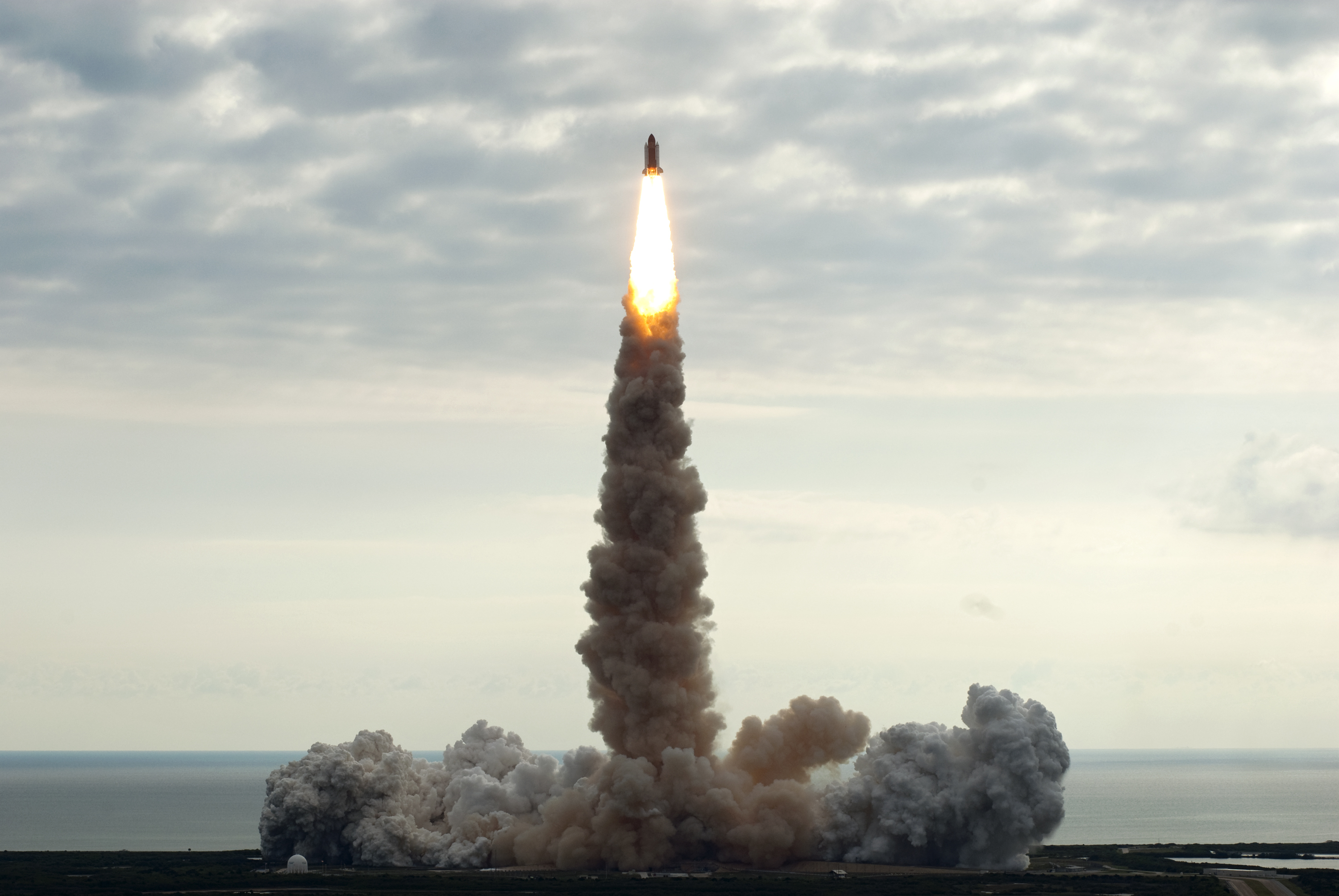 CAPE CANAVERAL, Fla. -- Rising on twin columns of fire and kicking up a trail of smoke and steam, space shuttle Endeavour lifts off from its seaside launch pad at NASA's Kennedy Space Center in Florida. Endeavour began its final flight, the STS-134 mission, to the International Space Station on time at 8:56 a.m. EDT on May 16. Endeavour and its six-member crew are embarking on a mission to deliver the Alpha Magnetic Spectrometer-2 (AMS), Express Logistics Carrier-3, a high-pressure gas tank and additional spare parts for the Dextre robotic helper to the space station. Endeavour's first launch attempt on April 29 was scrubbed because of an issue associated with a faulty power distribution box called the aft load control assembly-2 (ALCA-2).